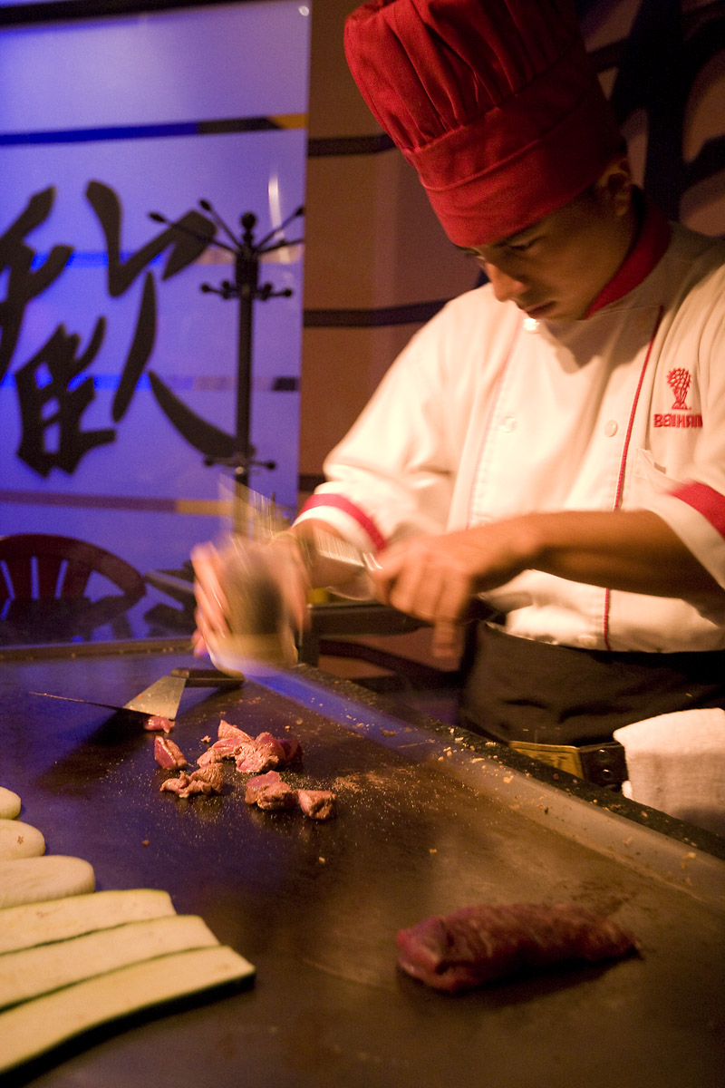 One can never have enough Benihana.